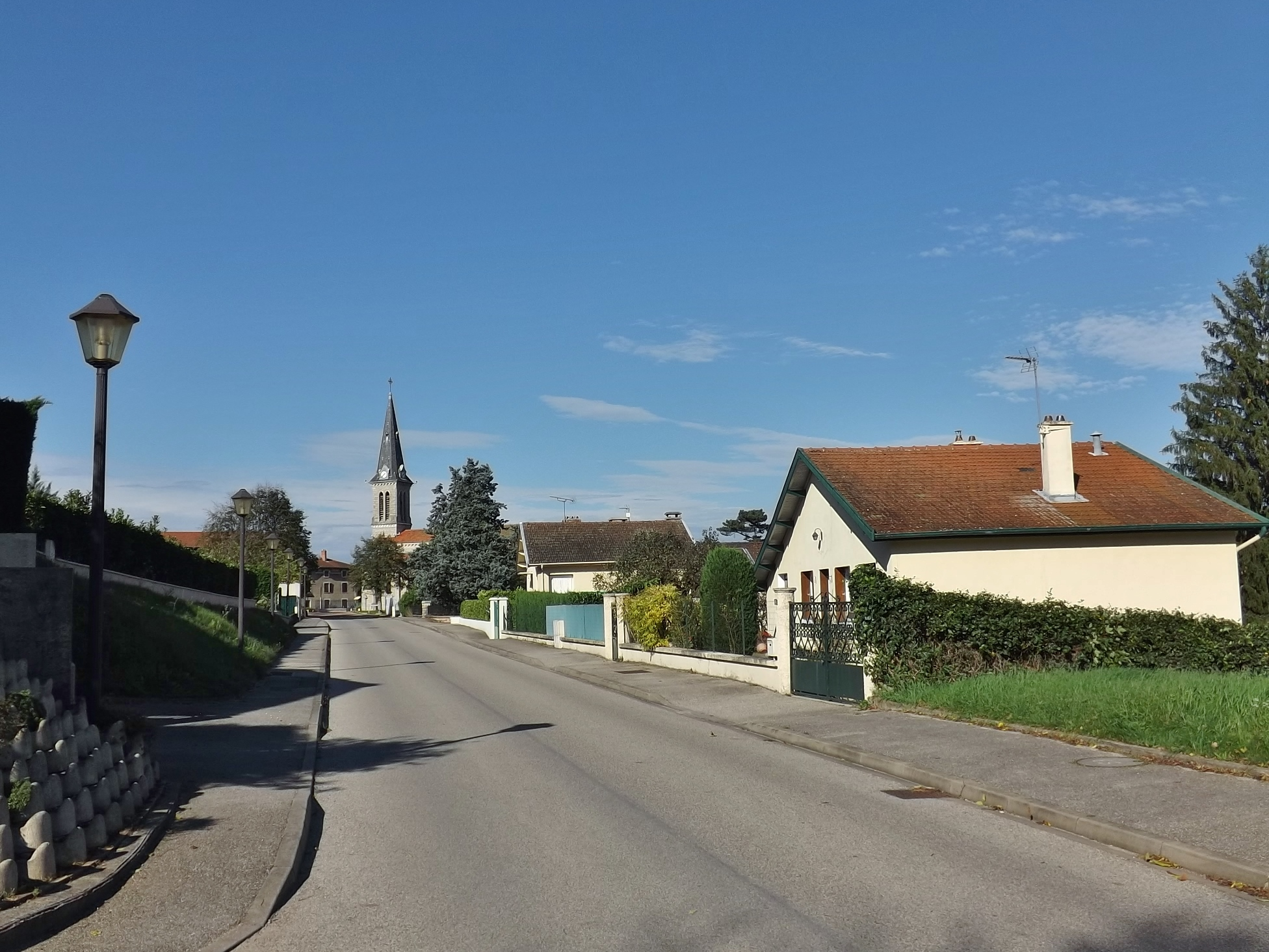 Sight of the French village of Béligneux and its church, in Ain.